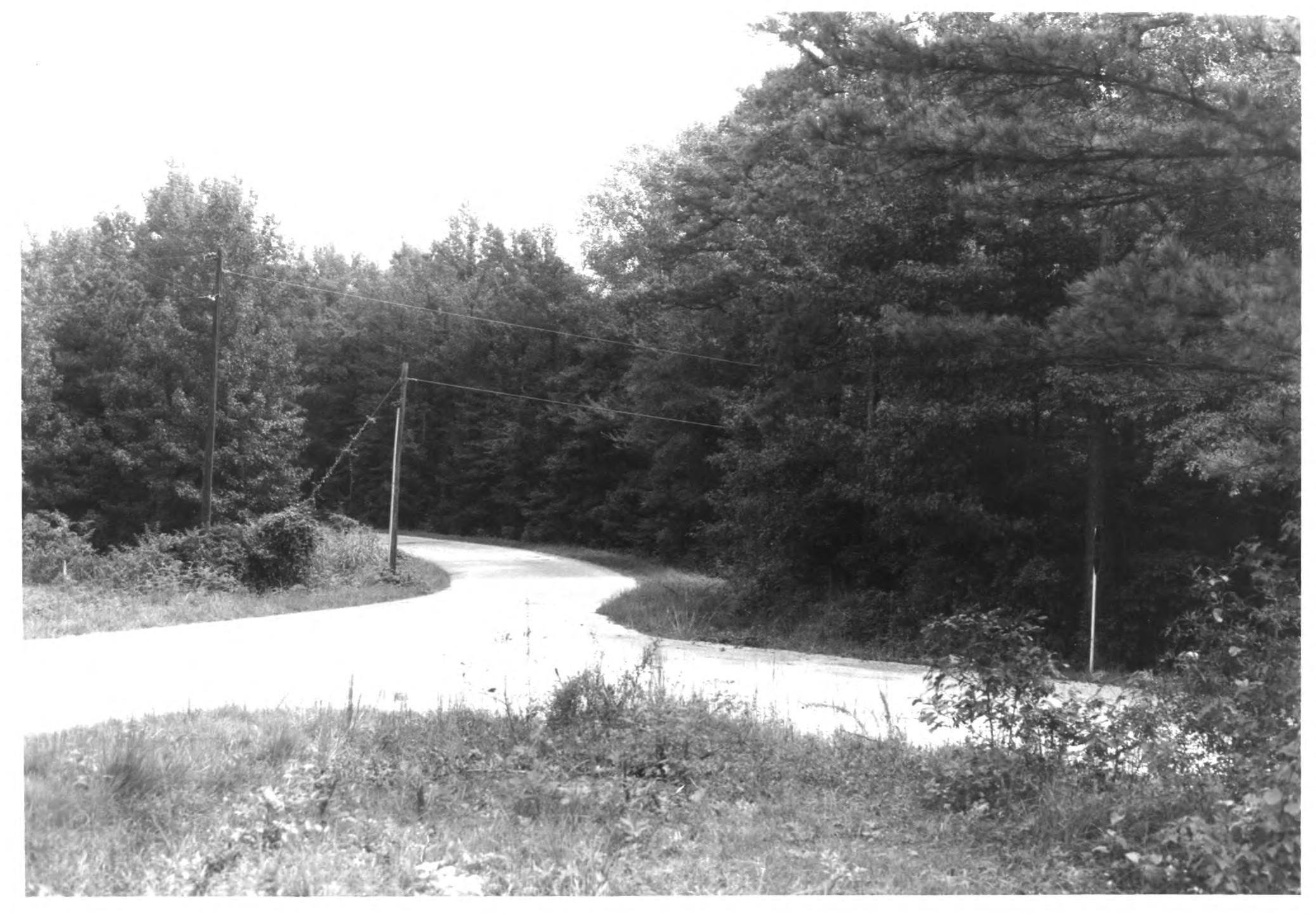 Old Natchez Trace (310-2A), near hamlet of Threet, Alabama, in Lauderdale County, Alabama. The route of the historic Natchez Trace ran along paved road to the left, and then continued through an unpaved section.